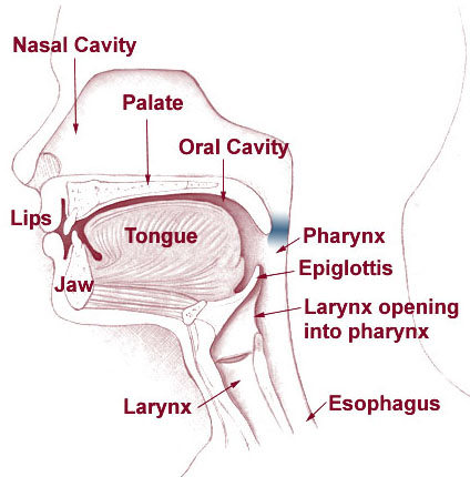 Head and Neck Overview (from